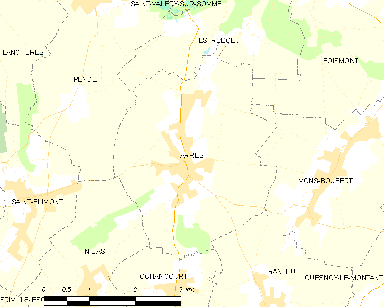 Map of French municipality Arrest